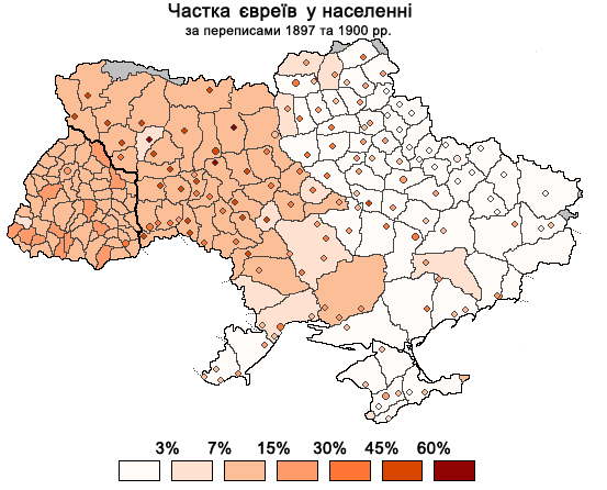 Jews in Ukraine, 1897 and 1900 census